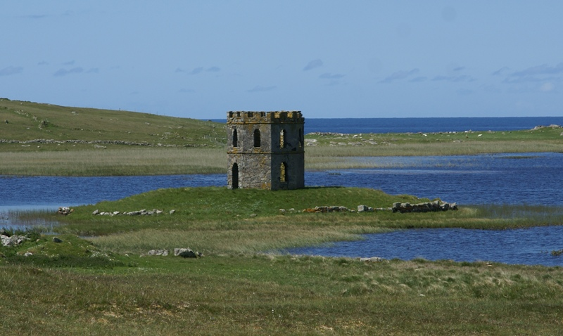 Dun Scolpaig Tower, North Uist, Outer Hebrides, Scotland.